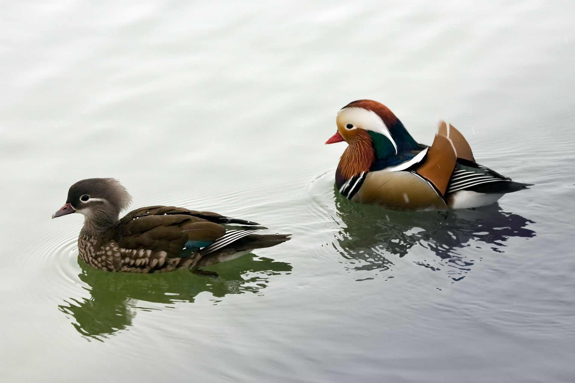 Mandarin Duck Aix galericulata female on the left side, male on the right side.